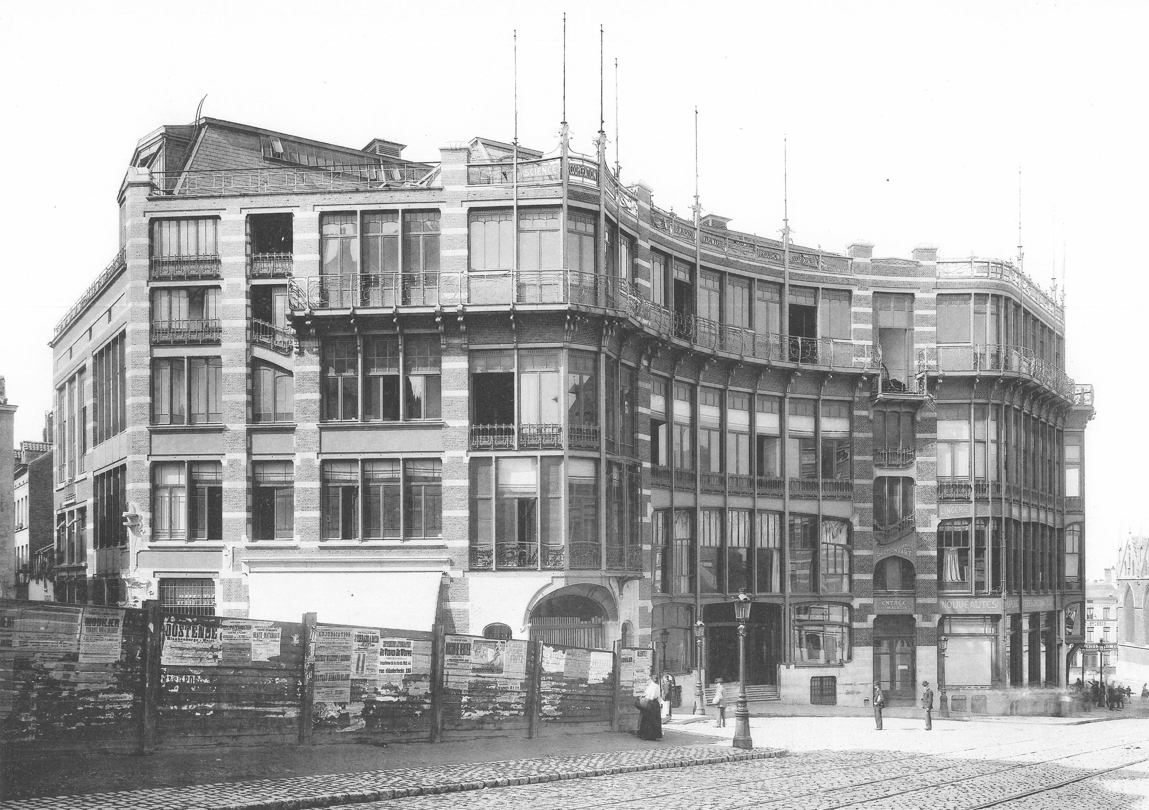 Maison du Peuple of the P.O.B. (Belgian Workers Party) (destroyed, Brussels), exterior 3, collection Hortamuseum